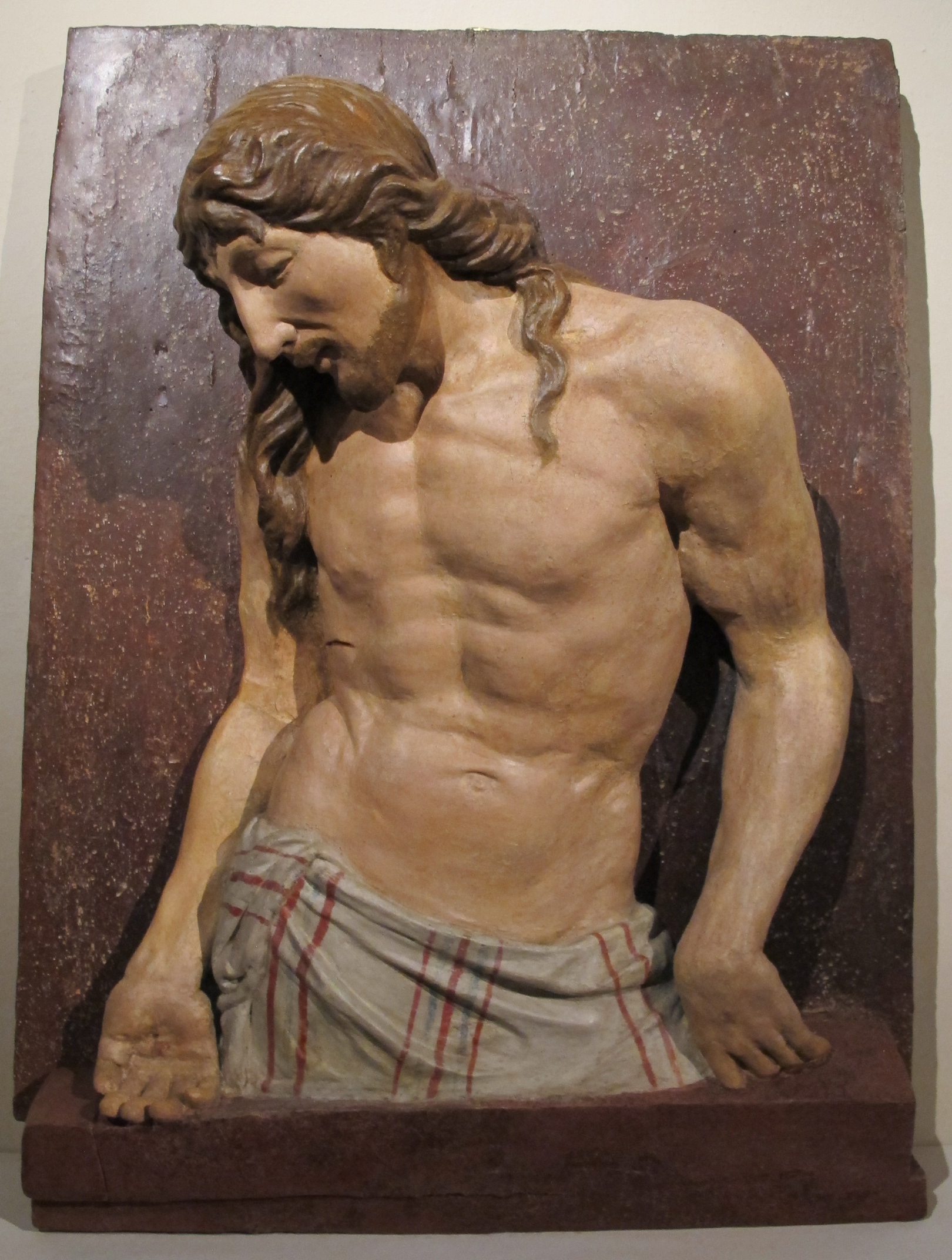 Sculpture in the National Pinacotheque, Siena